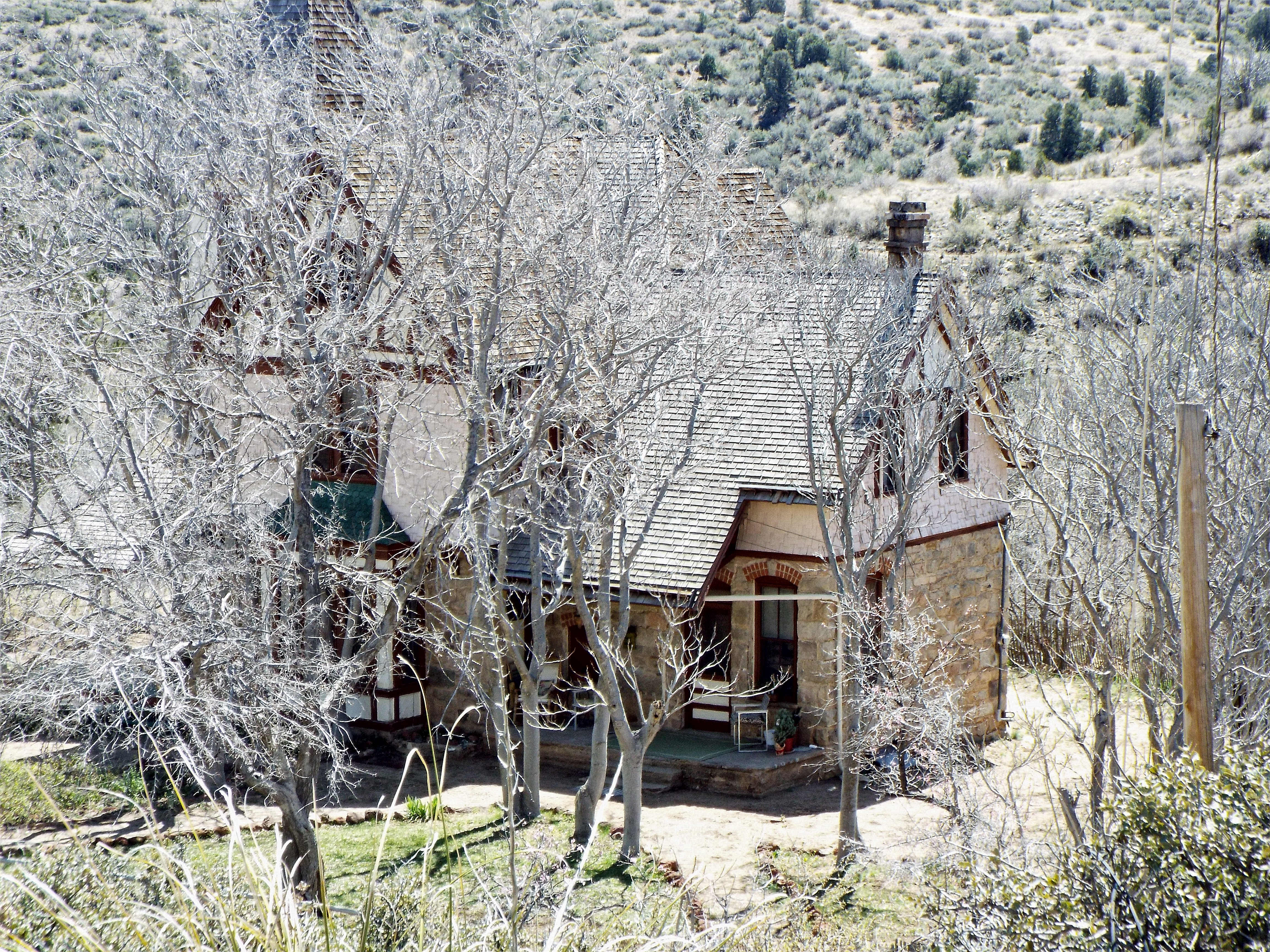 Prescott Valley, Az-Lynx Creek District-Fain Park-Barlow-Massicks Victorian House-1890